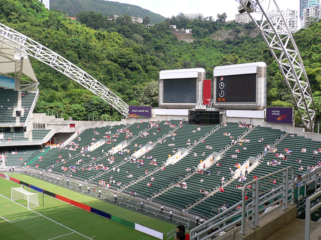 Hong Kong Stadium, South Stand